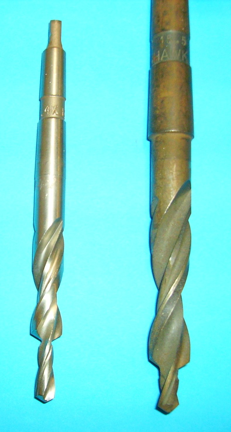 Drills with two stages